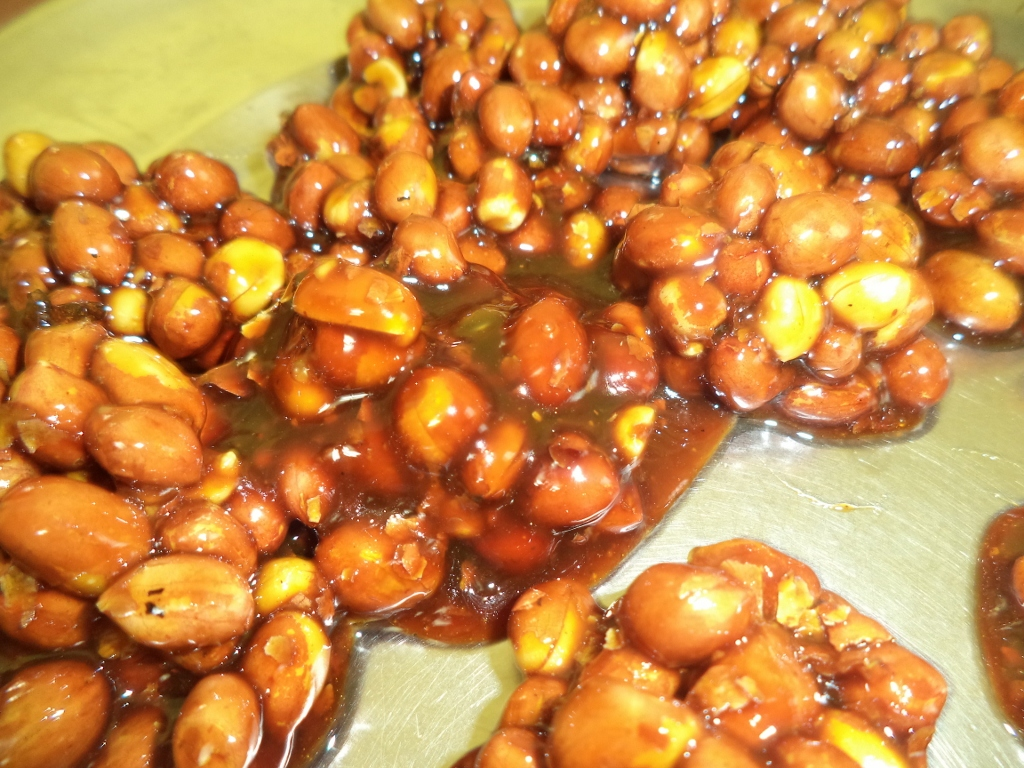 Indigenous candy made from jaggery and groundnut popular in Tamil Nadu